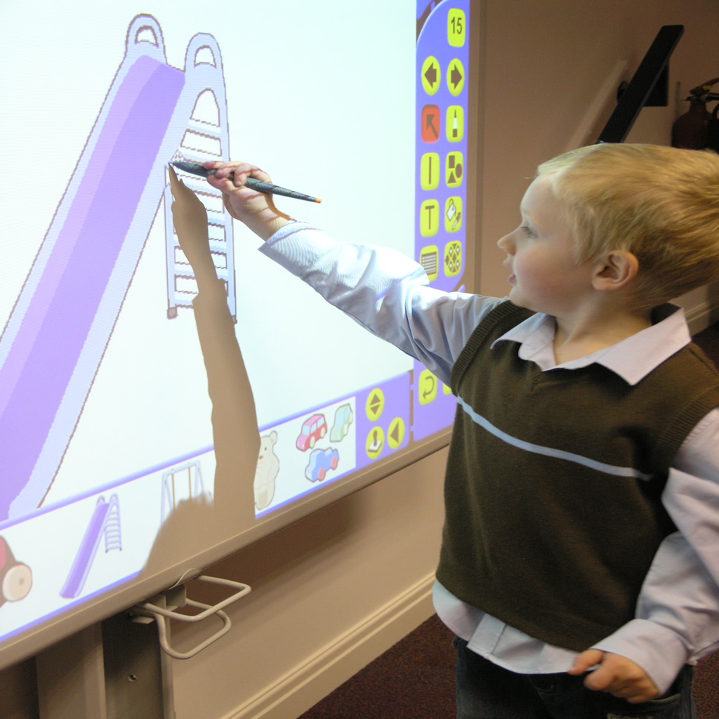 Student Using an Interactive Whiteboard